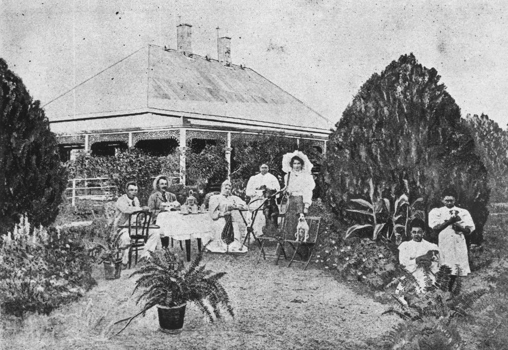 Tea party at Mount Cornish Station, 1898 Table set for tea in the garden of Mount Cornish .